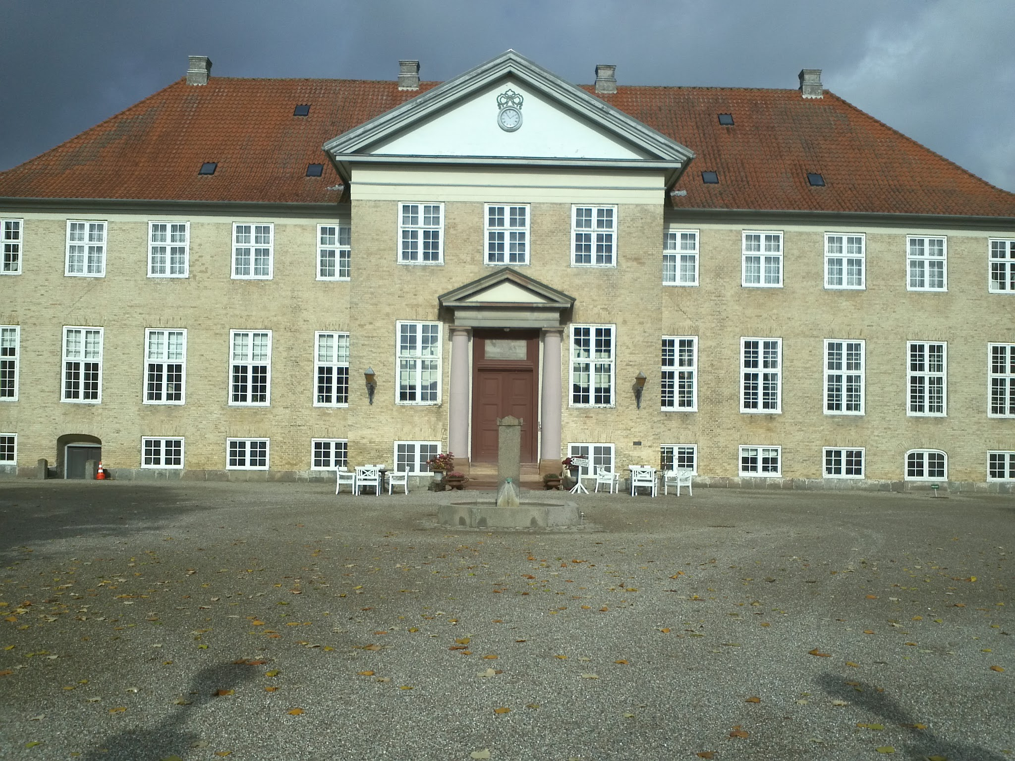 Facade of Skjoldenæsholm Castle from the gates